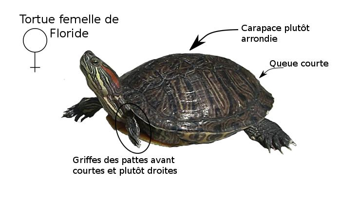 Pseudemys scripta elegans. Female. Her name is Ecrabouilla. That's my turtle and the photo was taken by me :) Use this photo for showing the sexual diphormism ^^